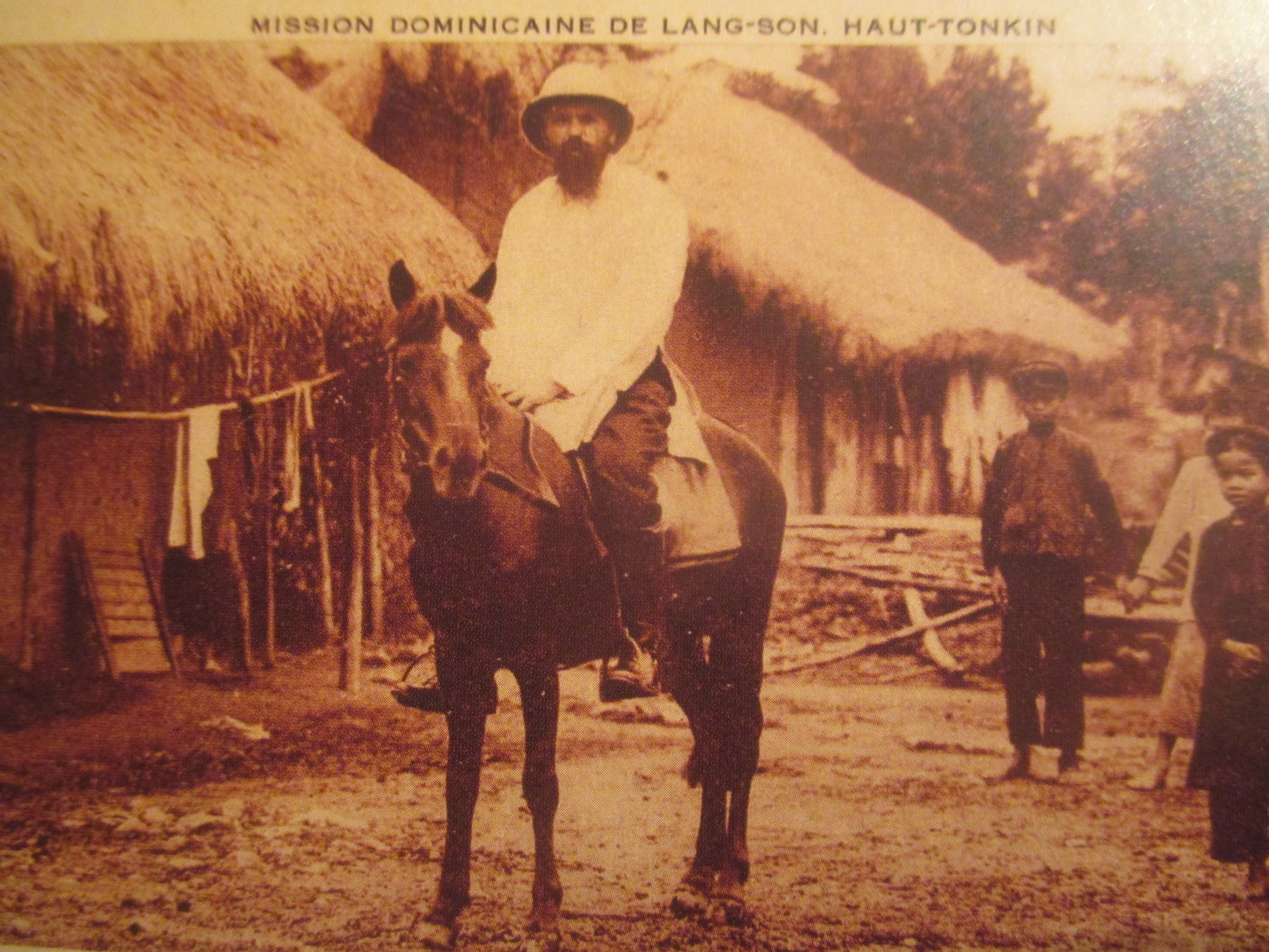 Père dominicain en visite pastorale à That Khé, dans le Tonkin, près de Lang Son.